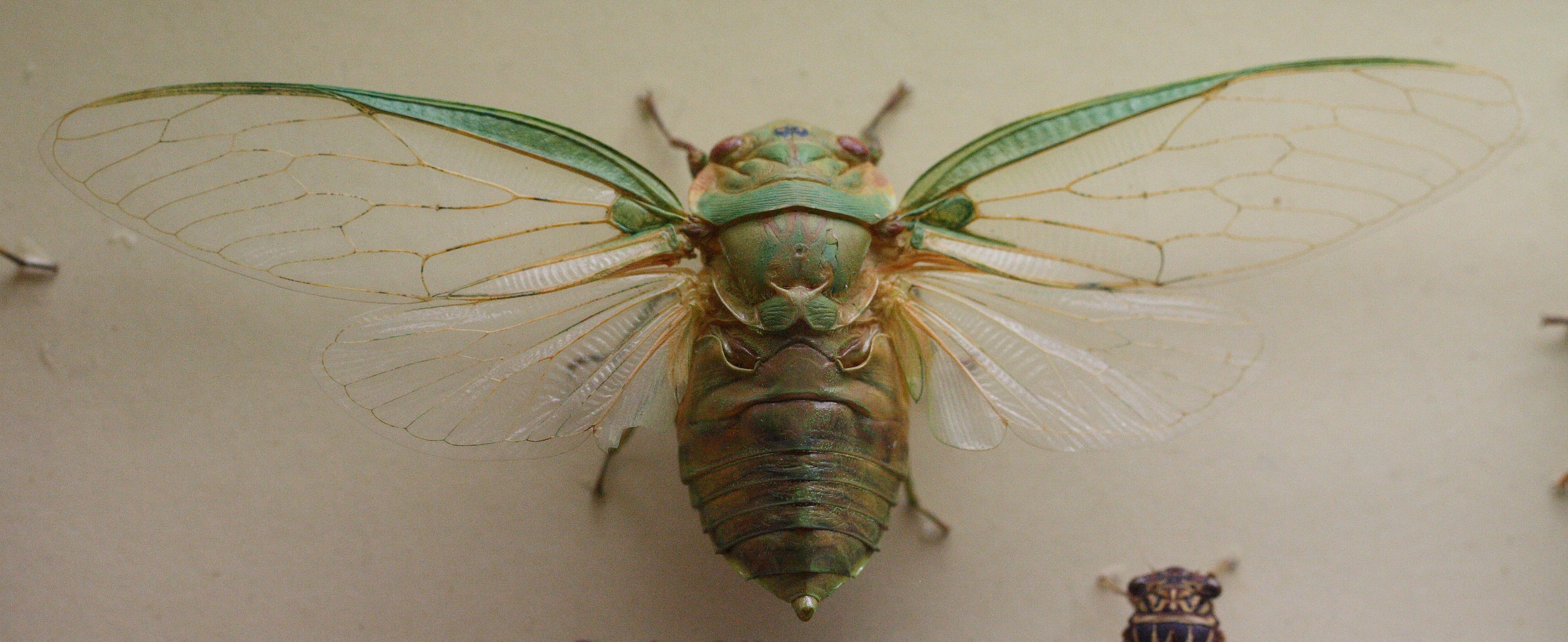 Specimen in the Australian Museum cicada display.